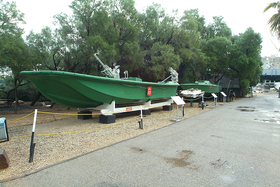 Israel Defense Forces